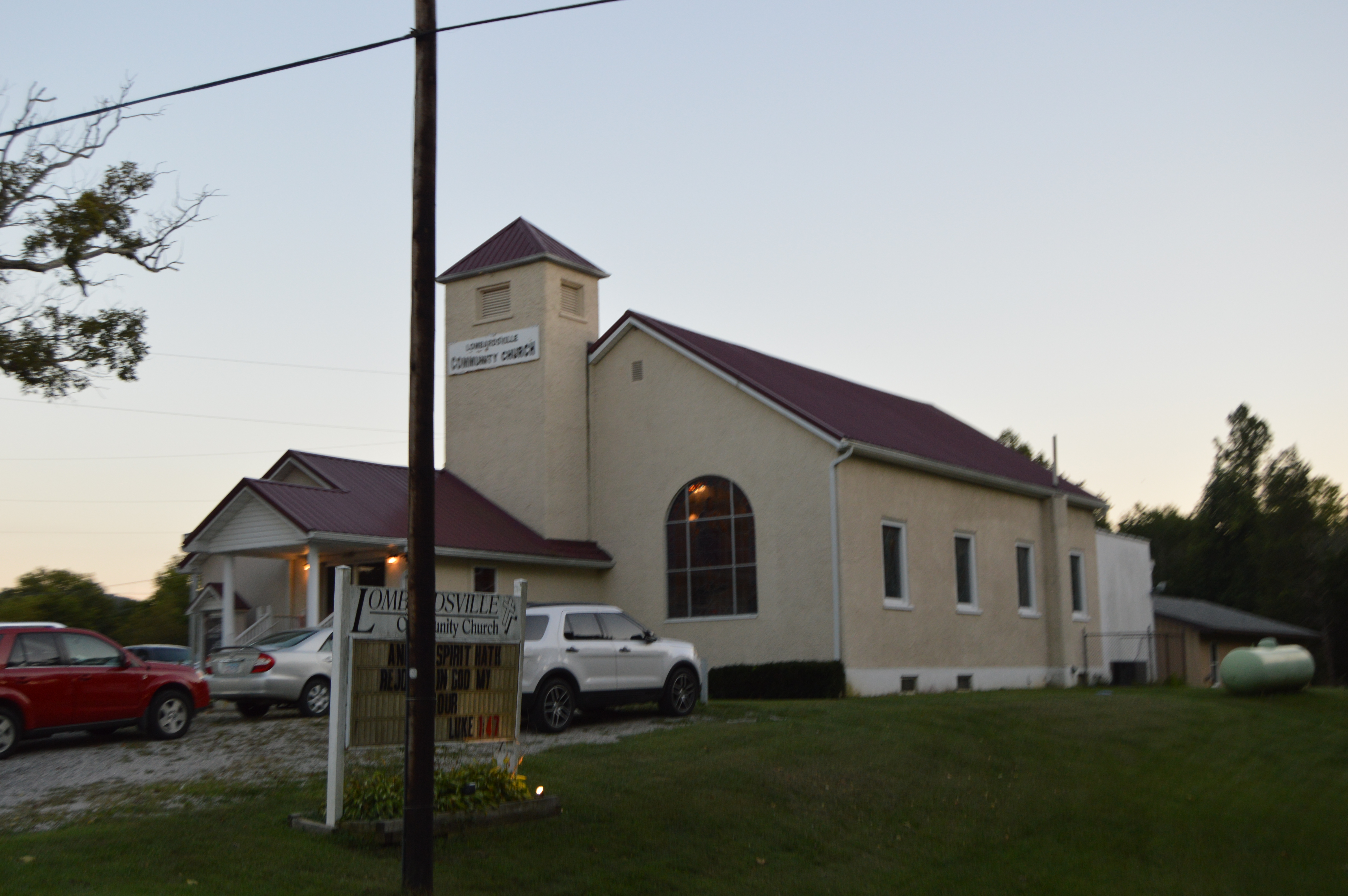 Front and western side of the Lombardsville Community Church, located at the intersection of State Routes 73 and 371 at Lombardsville in Union Township, Scioto County, Ohio, United States.